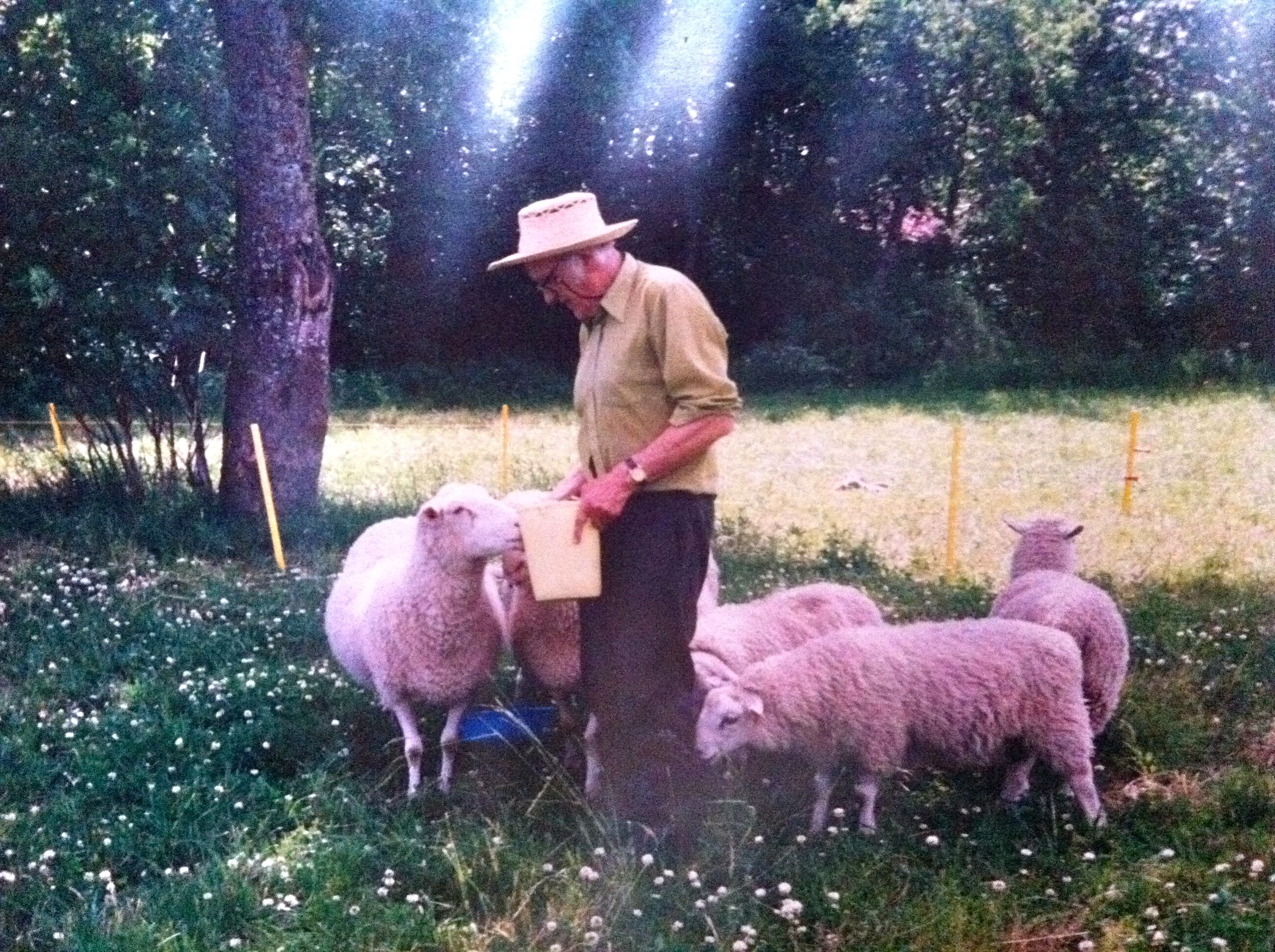 Erik Sjödin